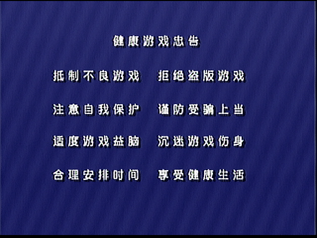 A (bad) image of the iQue Player healthy gaming advice screen. If possible, this should be updated soon.